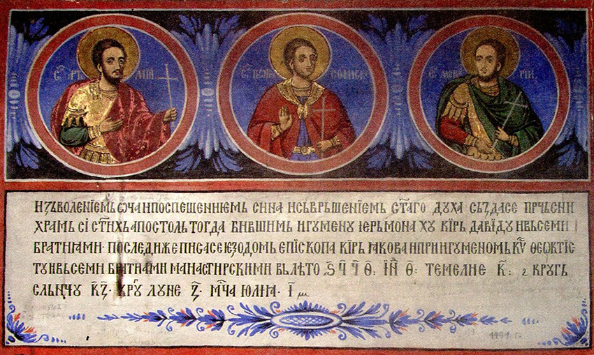 Orlitsa Inscription 1491